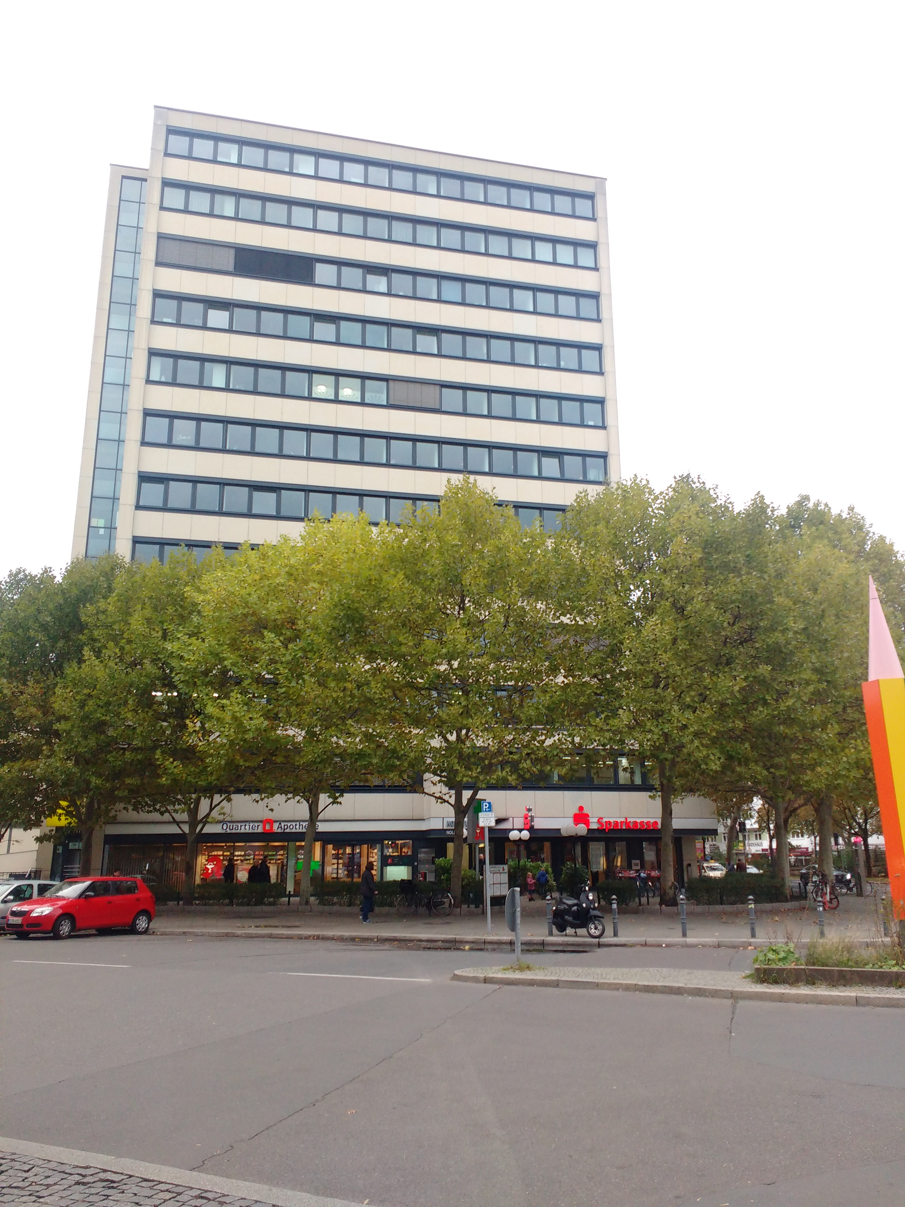 4 Nollendorfplatz, the site of the Ufa-Pavillon am Nollendorfplatz cinema (1912-1943), photographed in October 2019